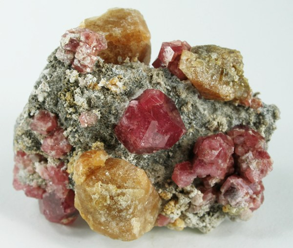 Grossular, Vesuvianite Locality: Lake Jaco, Sierra de la Cruz, Municipio de Sierra Mojada, Coahuila, Mexico (Locality at ) Size: 5.0 x 4.4 x 1.8 cm. A beautiful, 1.4 cm, translucent, raspberry-red, compound grossular garnet is very aesthetically set on the matrix plate and is surrounded by smaller garnets and lustrous, translucent, tannish-yellow vesuvianite crystals on this fine piece from the mid-1990s finds at the well-known Lake Jaco deposit of Mexico. Classic combination material from the Robert Whitmore Collection # 3832.